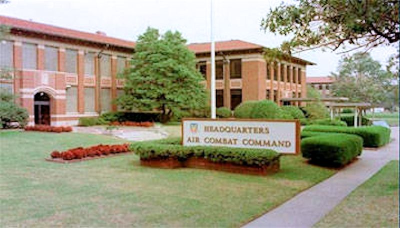 Air Combat Command Headquarters building, Langley Field, Joint Base Langley–Eustis, Virginia